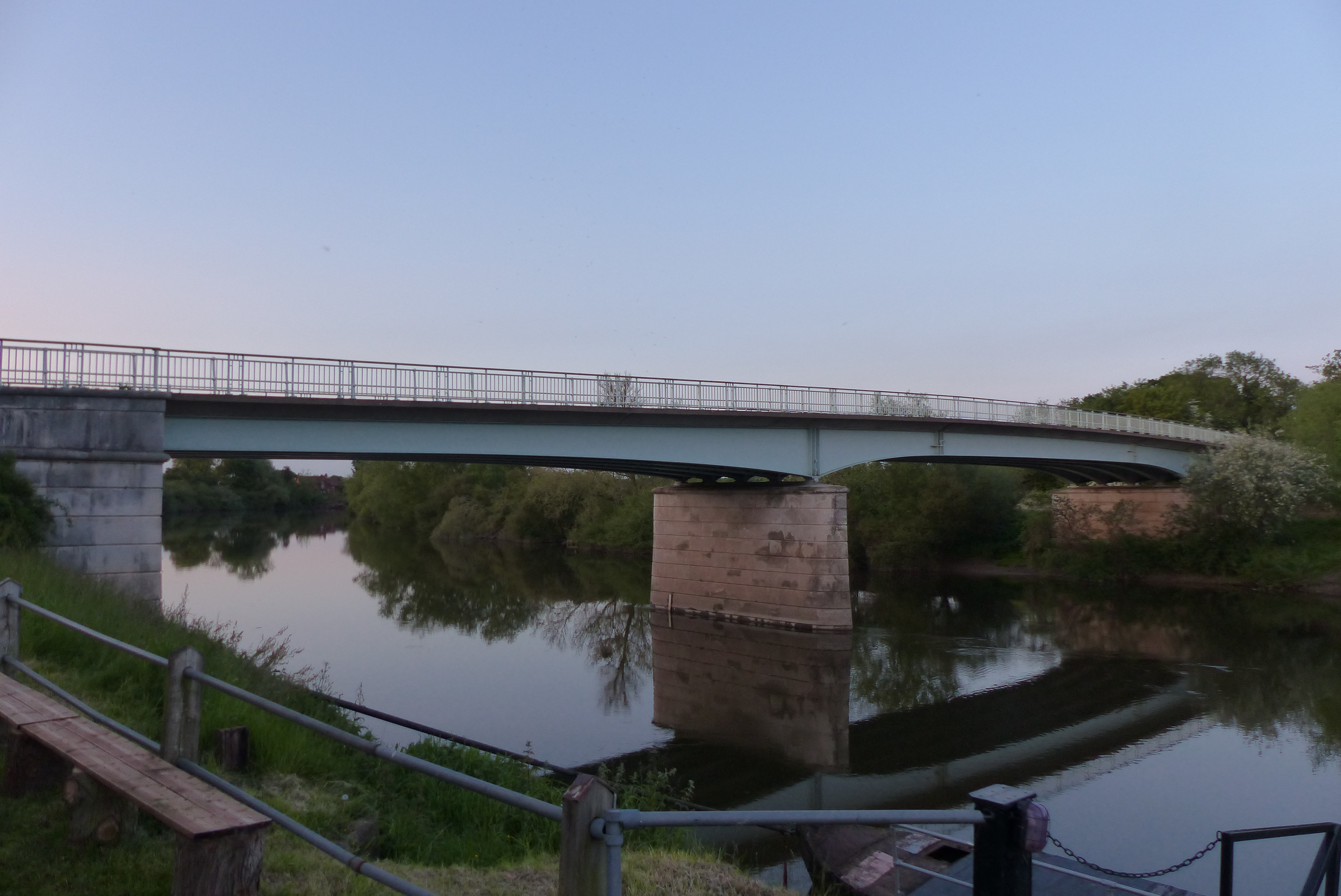 Haw Bridge over the River Severn, Gloucestershire.